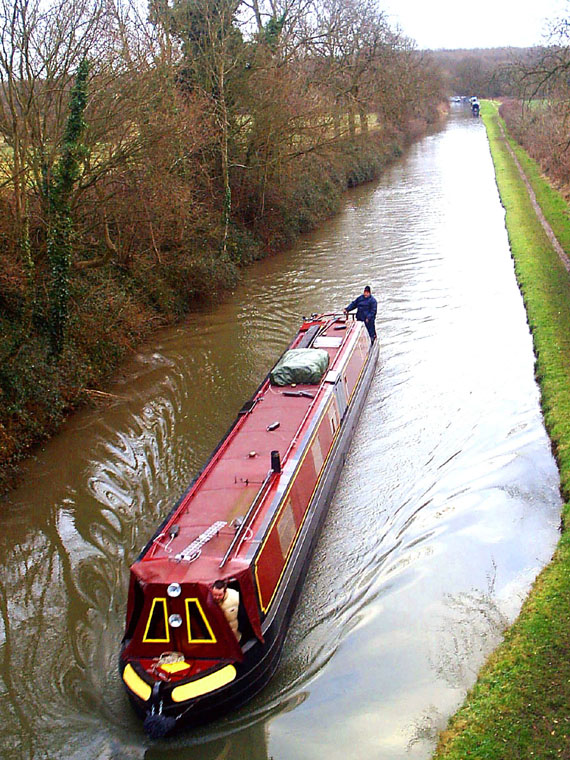 A cruiser on the Oxford Canal near the village of Brinklow in Warwickshire in the countyside between Coventry and Rugby. This is part of the long level stretch of the canal which extends all the way from Coventry to Hillmorton. Photo by G-Man Jan 2005